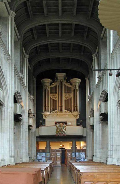 All Hallows by the Tower, Byward Street, London EC3 - West end, near to Bermondsey, Southwark, Great Britain.